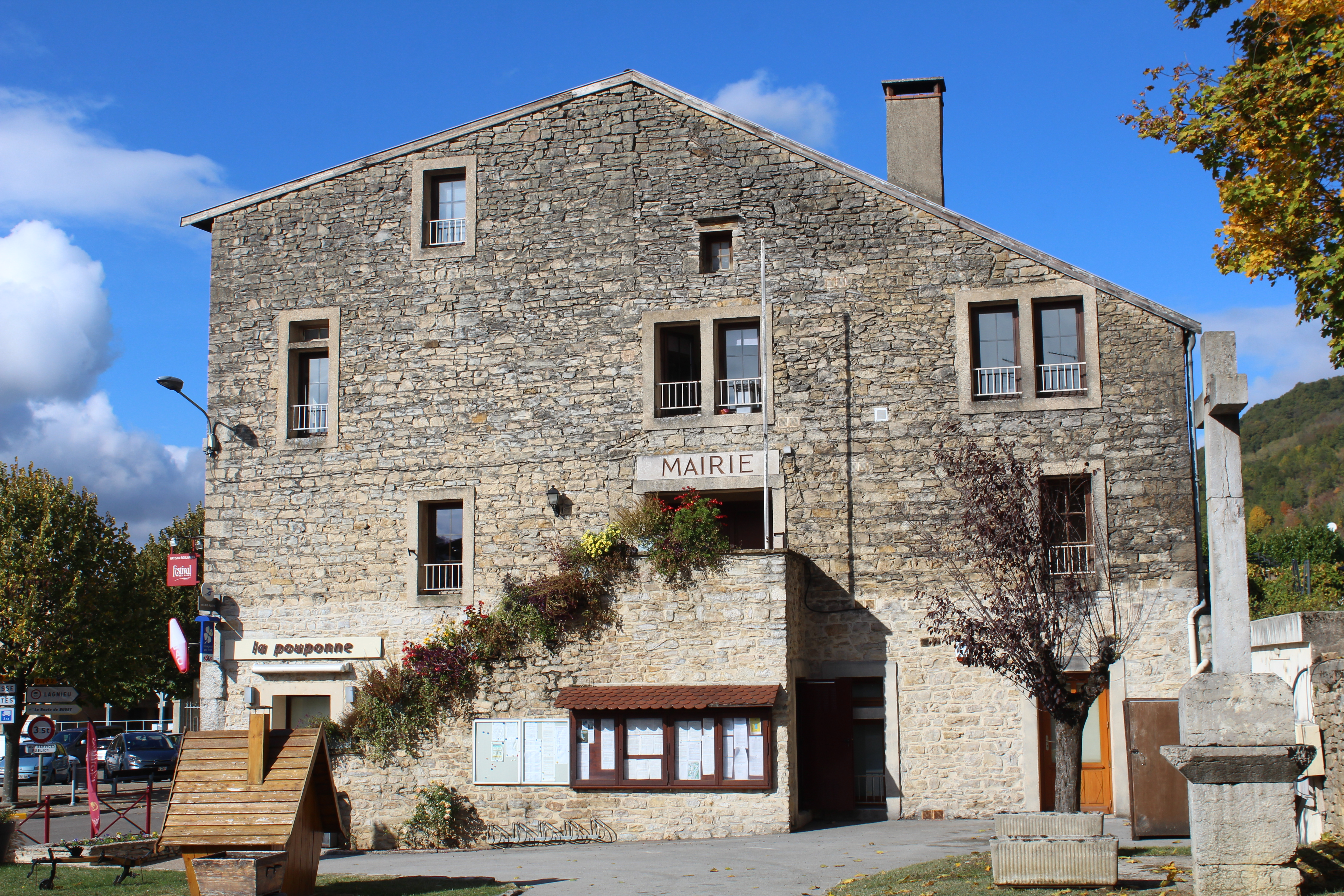 War memorial of Saint-Sorlin-en-Bugey, Ain department, France.